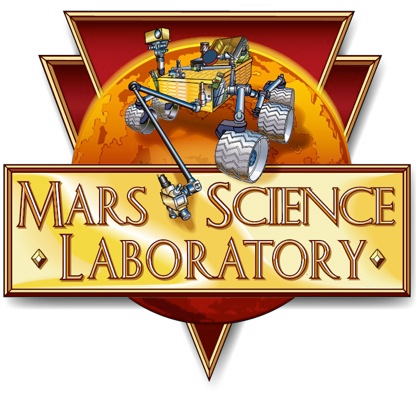 The logo of the Mars Science Laboratory mission.